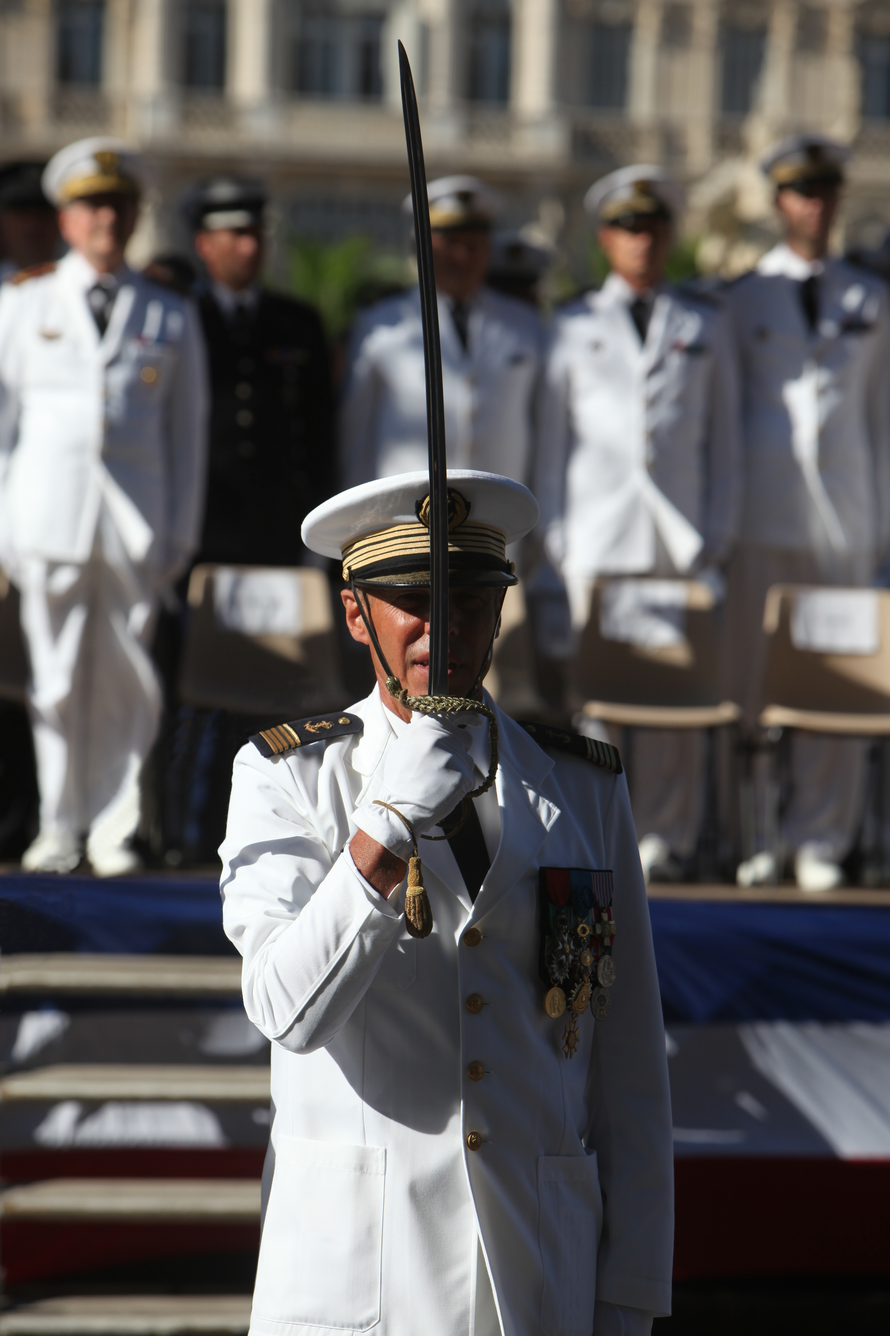 A capitaine de vaisseau (captain) of the French Navy salutes at the ceremonies of the 14th of July 2011 in Toulon